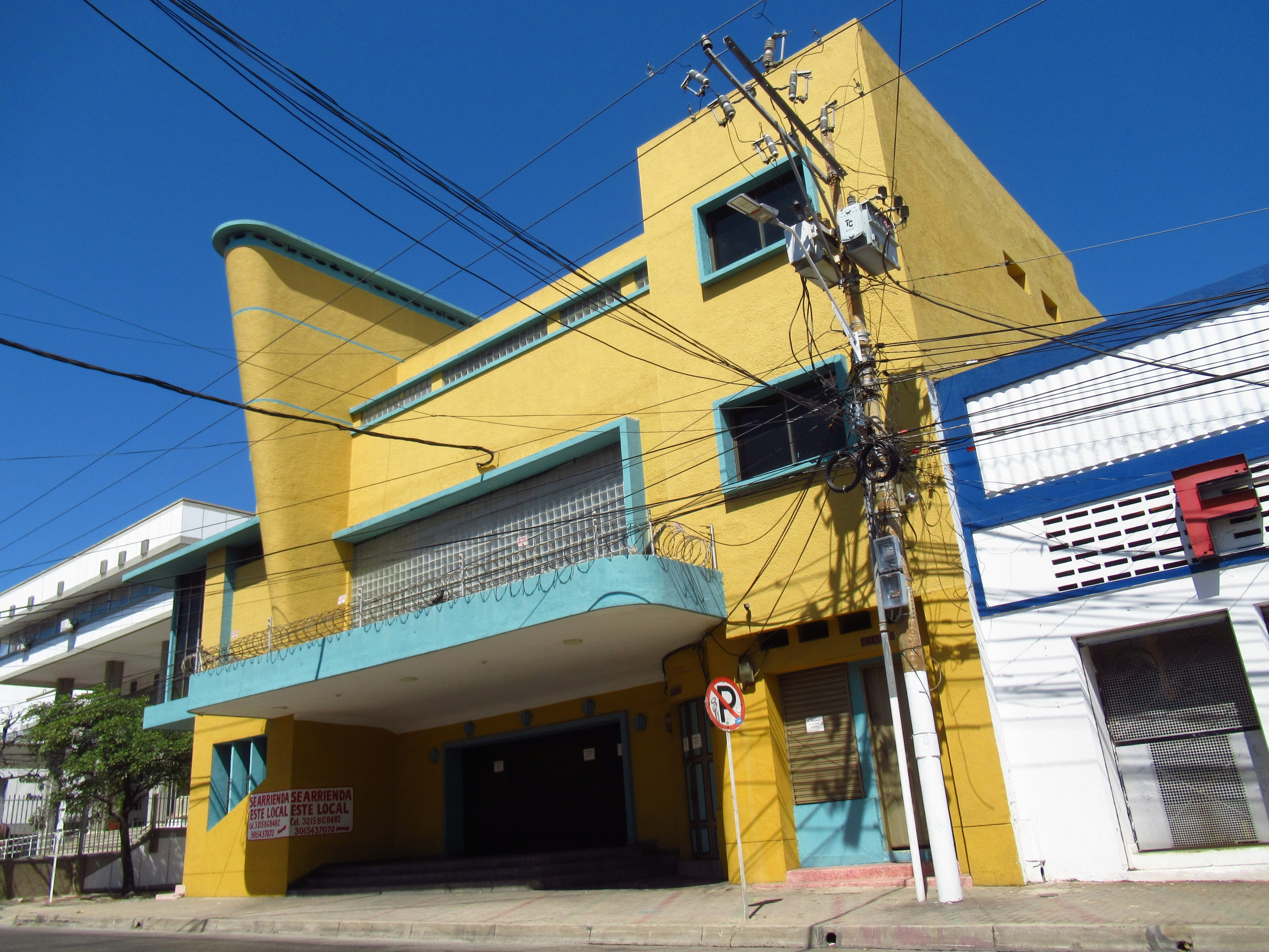 2019 Barranquilla (Colombia) - Teatro Colón